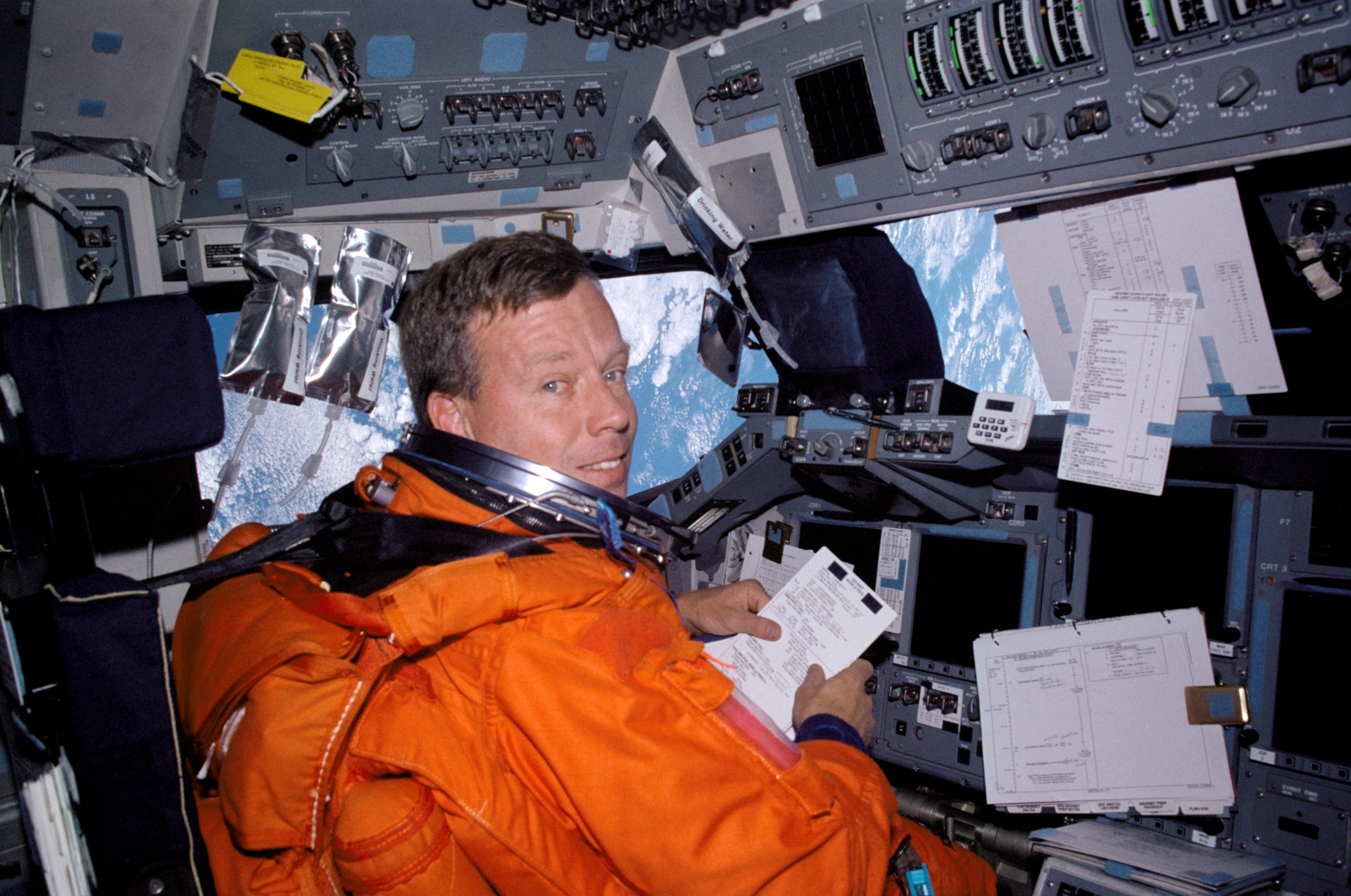 Attired in his shuttle launch and entry suit, astronaut Steven W. Lindsey, STS-104 commander, looks over a procedures checklist at the commander’s station on the forward flight deck of the space shuttle Atlantis.